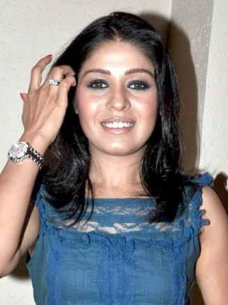 Sunidhi Chauhan at MLTR concert